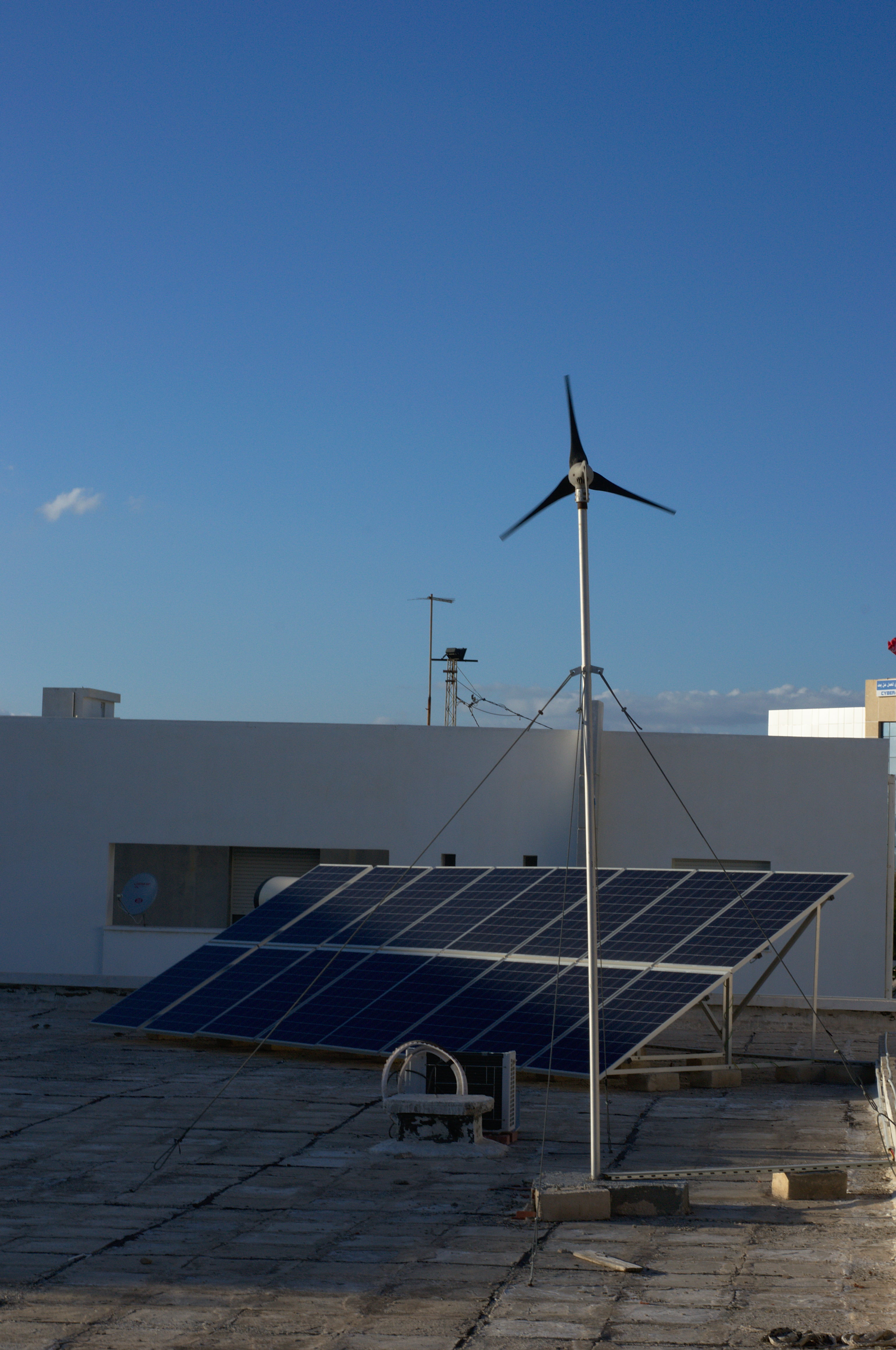 Clean energy, Tunisia CC BY SA-User:Dyolf77